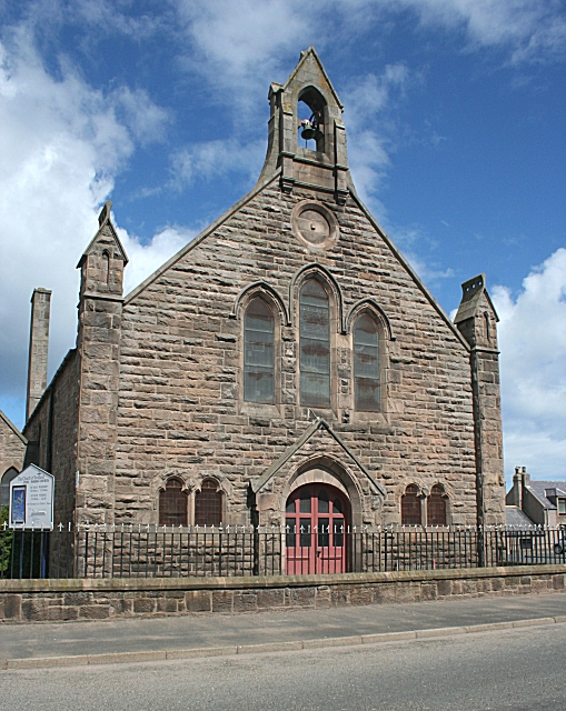 Enzie Parish Kirk The parish of Enzie was an ecclesiastical oddity. As well as an unusually large Roman Catholic population, it had two Church of Scotland parish kirks. This was formerly Enzie North Parish Kirk. Enzie South Parish Kirk is now the Moray Crematorium.